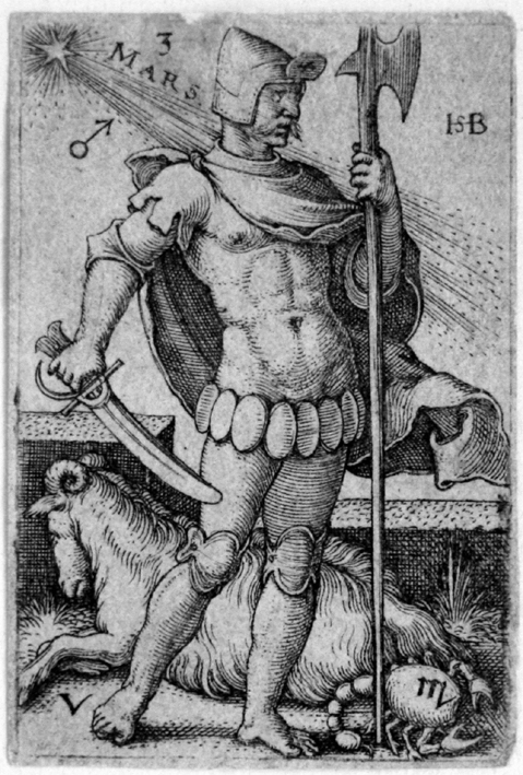 Beham, (Hans) Sebald (1500-1550): Mars, from The Seven Planets with the Signs of the Zodiac, 1539 (Bartsch 116; Pauli, Holl. 118), second state of five, trimmed to the platemark, with associated tiny paper losses at the upper sheet edge, otherwise generally in very good condition.